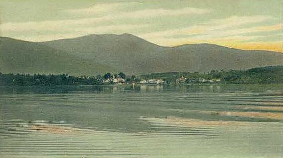 Melvin Village, Tuftonboro, NH; from a 1906 postcard.